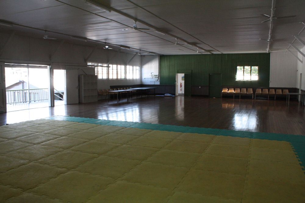 The inside of the Drill Shed, Fortitude Valley